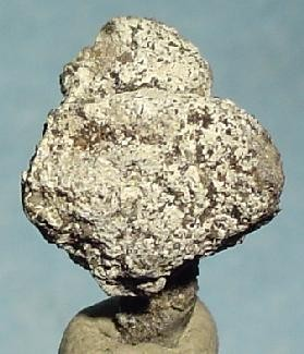 Lead Locality: Långban, Filipstad, Värmland, Sweden (Locality at ) Size: 1.5 x 1.2 x 1.1 cm. Native lead in any form is extremely rare, but to find lead crystals is SUPER RARE. This sharp, though admittedly worn, octahedral crystal is from the most famous locality for lead crystals - Langban, Sweden and is very jauntily perched on a stalk of massive lead. Truly representative of the species and locality.